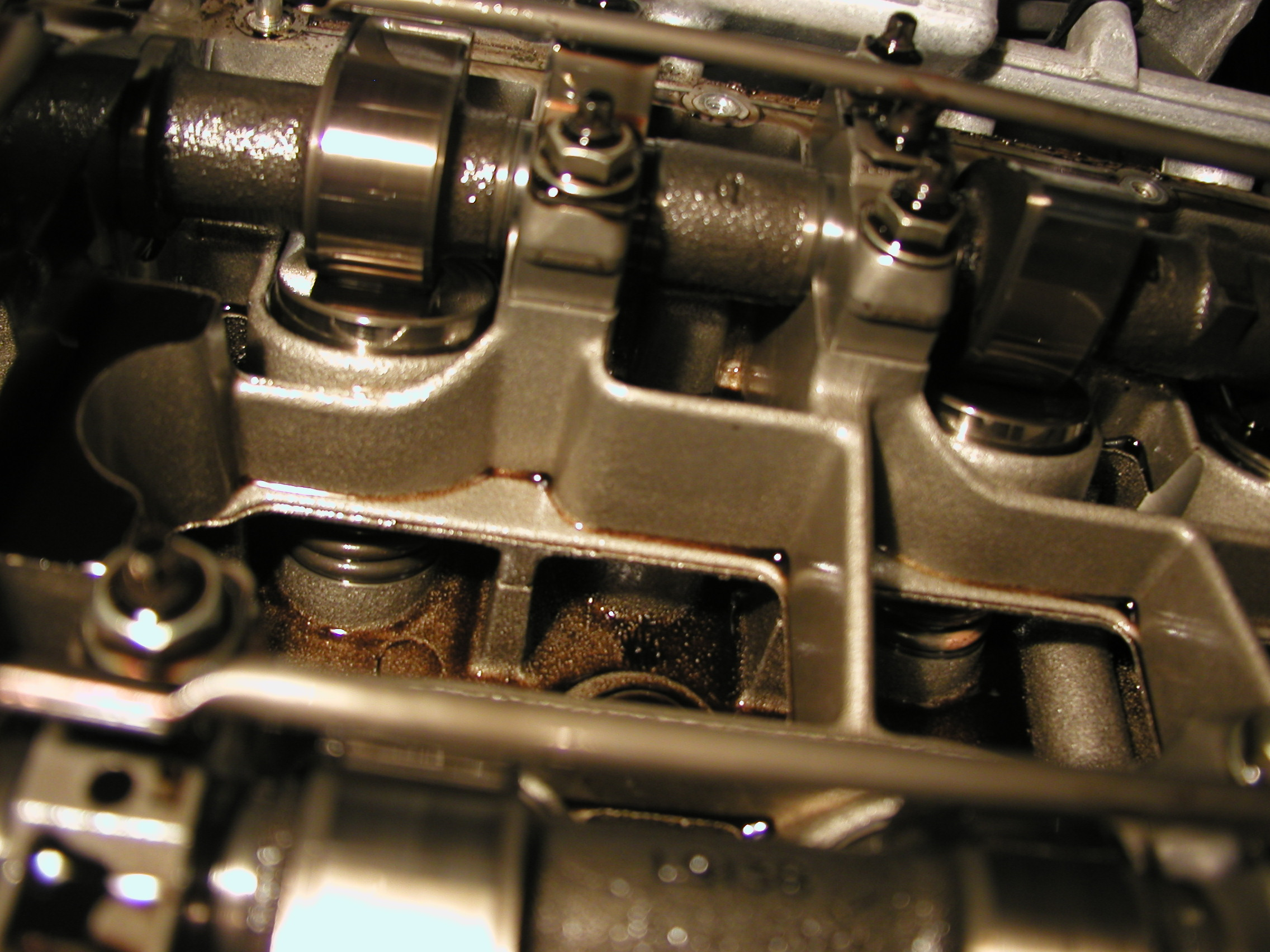 A close-up of a cam profile driving a valve lifter (or tappet?) on the Ford I4 DOHC engine. This particular valve lifter actuates an intake valve.